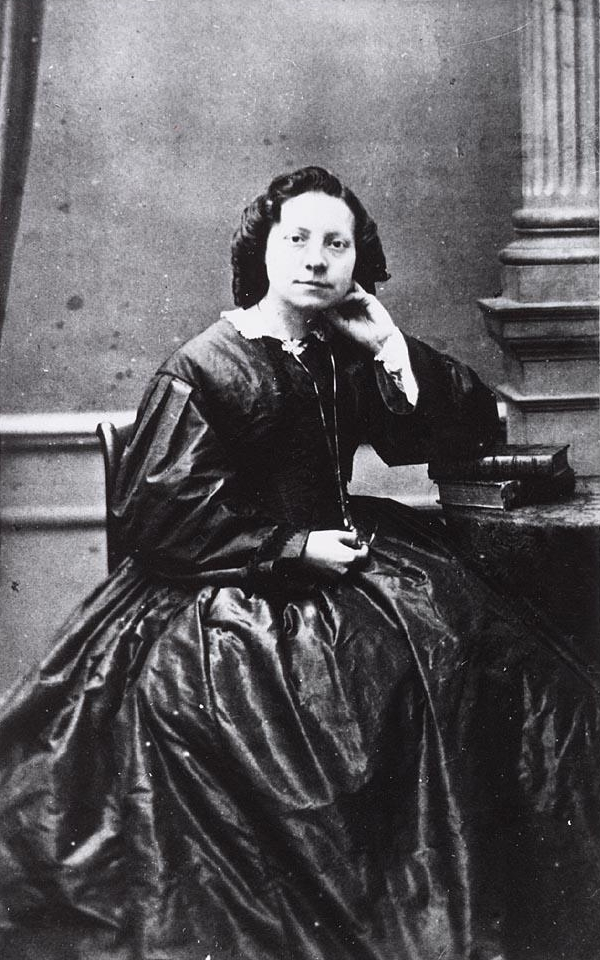 Christina Elizabeth (Betsy) Perk (Delft, 26 March 1833 – Nijmegen, 30 March 1906), Dutch writer and women's rights activist.